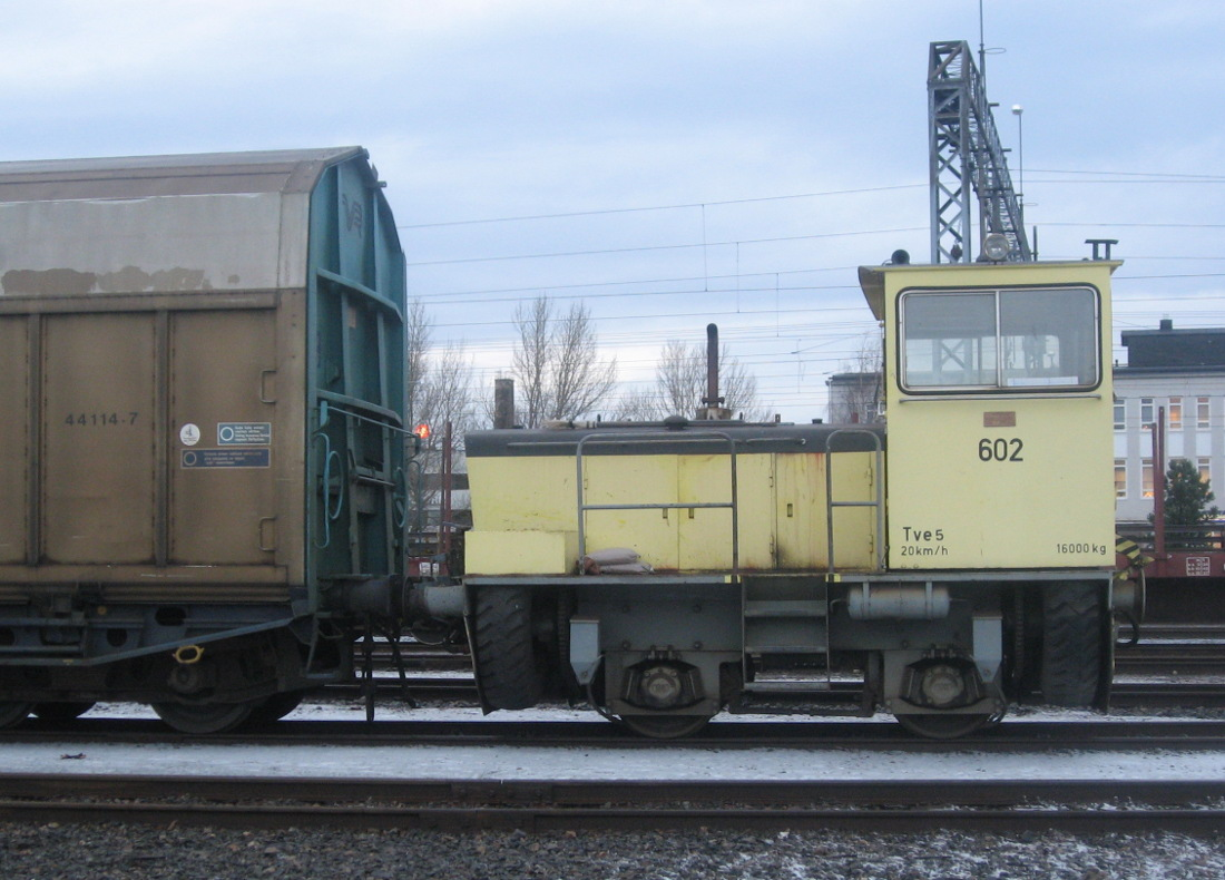 VR Class Tve5 locomotive (602) at Kokkola railway station, Finland.